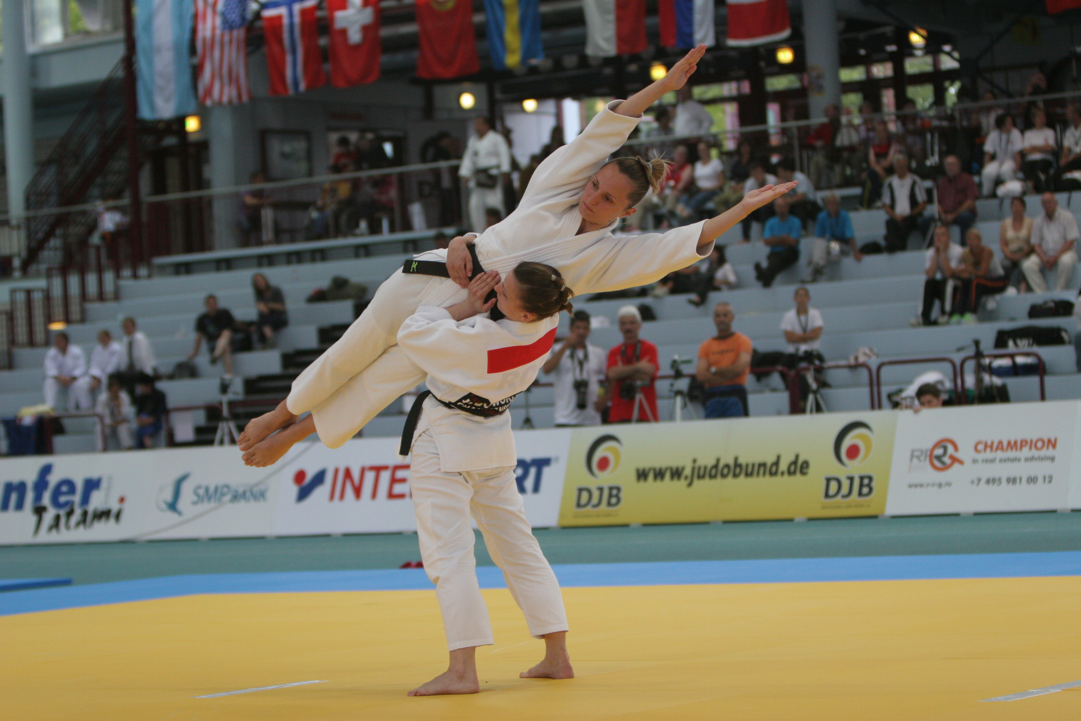 naname-uchi in Ju noKata